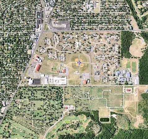 USGS digital orthophoto of Dodd Army Airfield in Texas